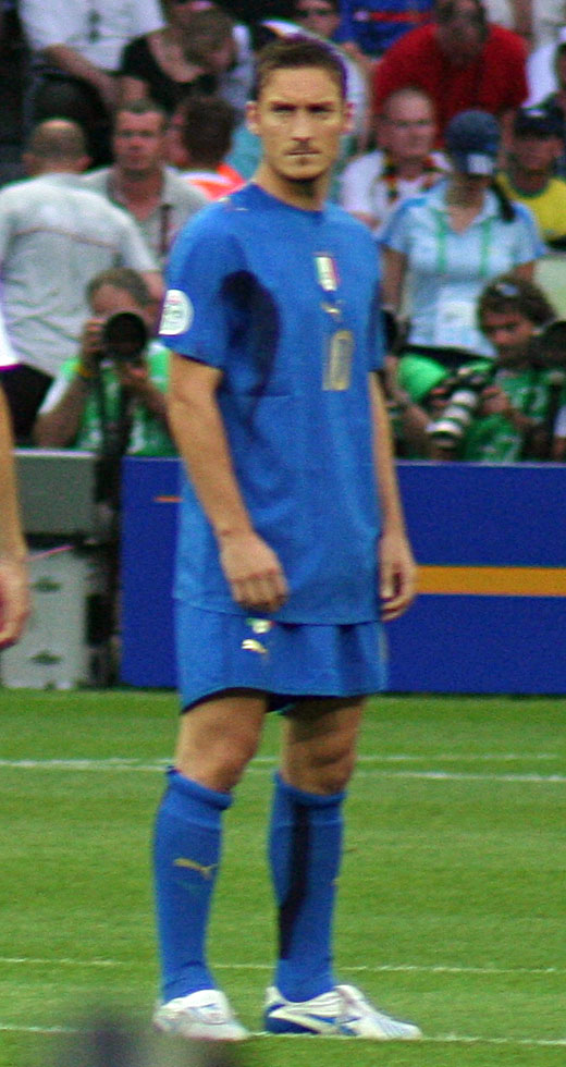 Italy vs France, FIFA World Cup 2006 final, italian forward Francesco Totti.